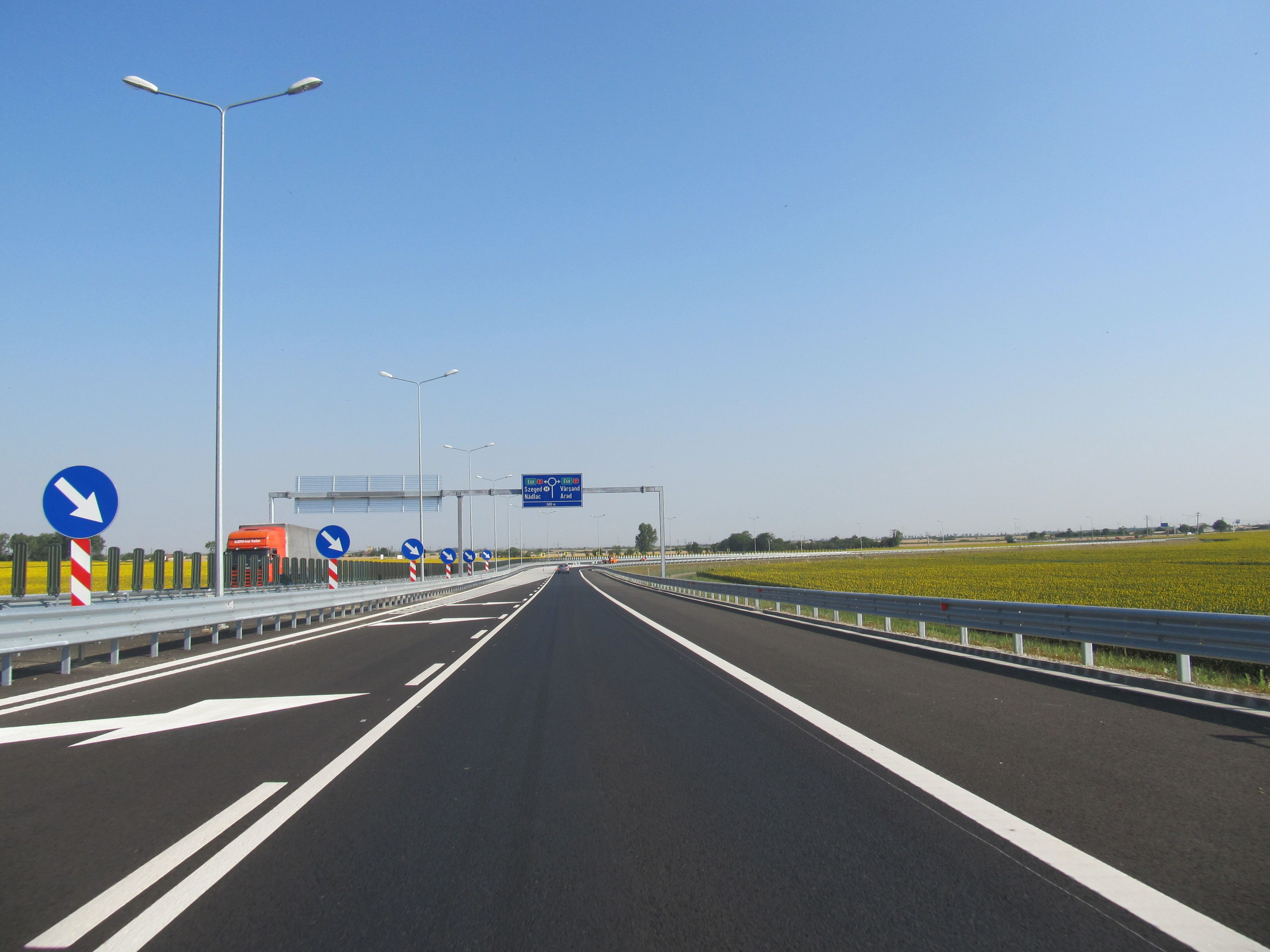 Arad Bypass, slip road of interchange Arad North (IC1).